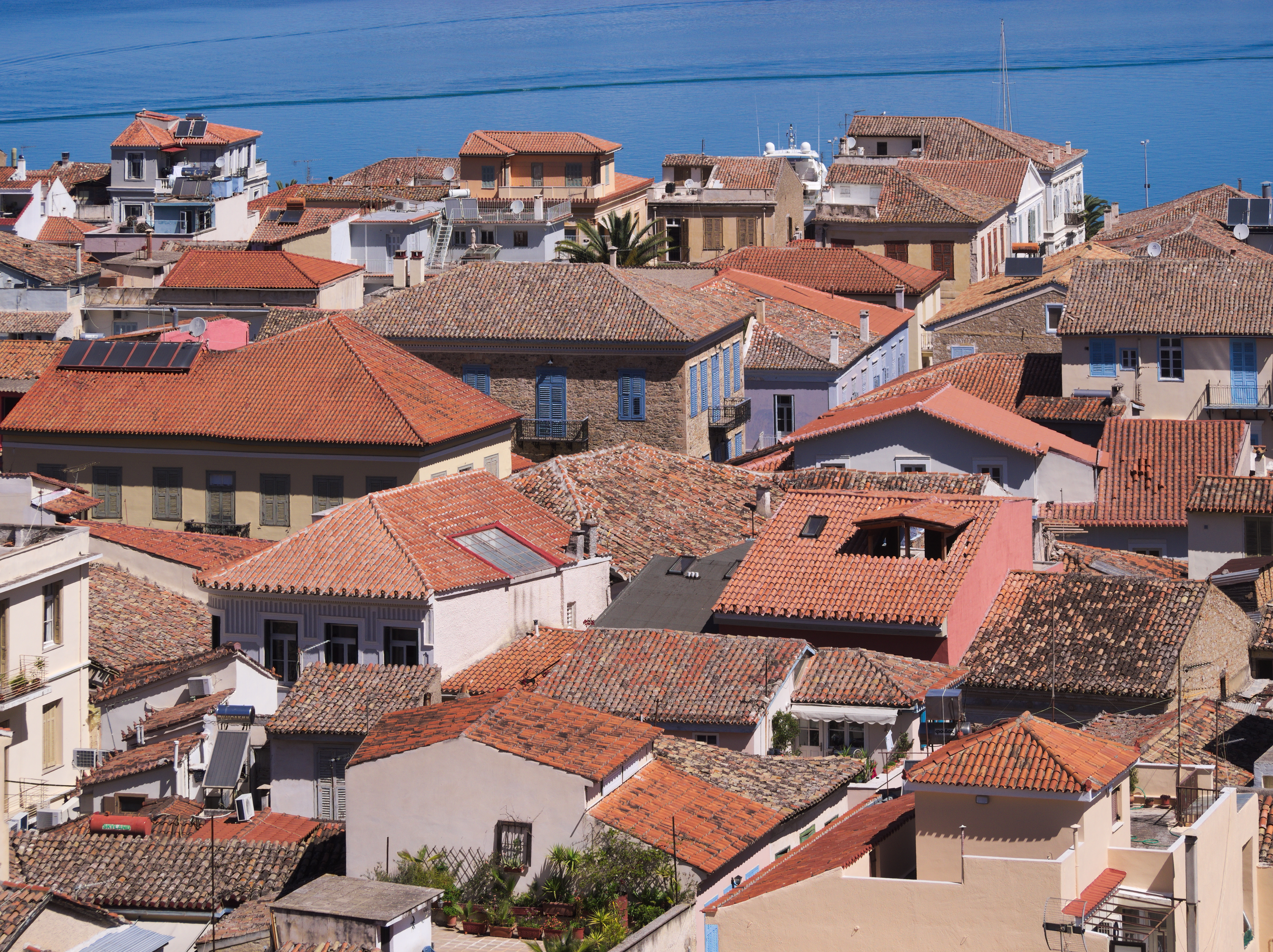 View of Nafplion from Akronafplia.